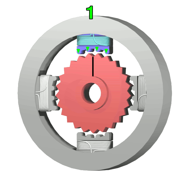 Illustration of a stepper motor. Created by Wapcaplet using Blender and the GIMP.